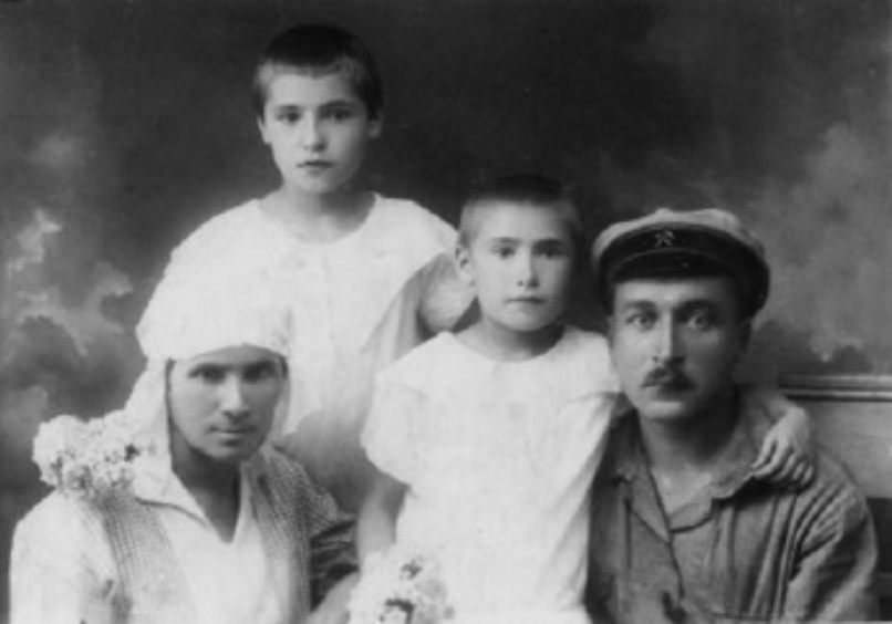 Uladzimir Ksianievič with his family